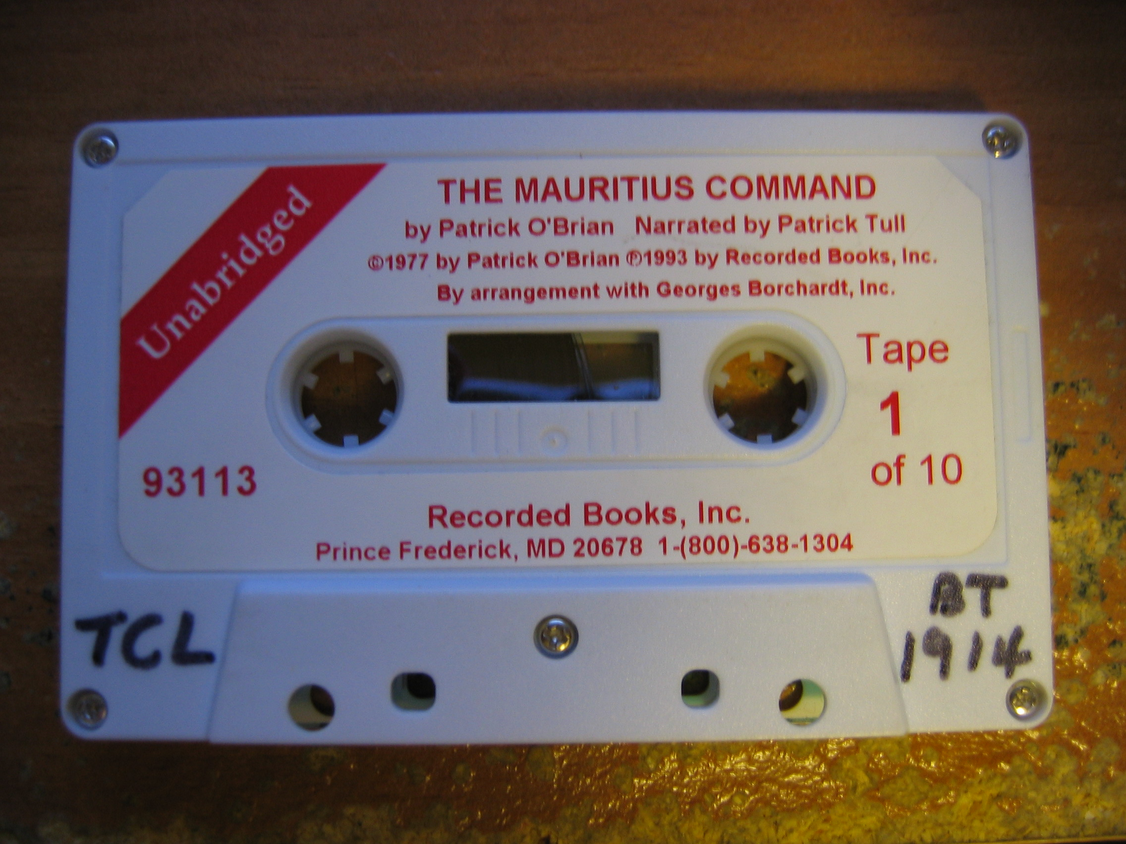 Photo by James Anatidae of an audio cassette of a recording of The Mauritius Command by Patrick O'Brian done by Patrick Tull.